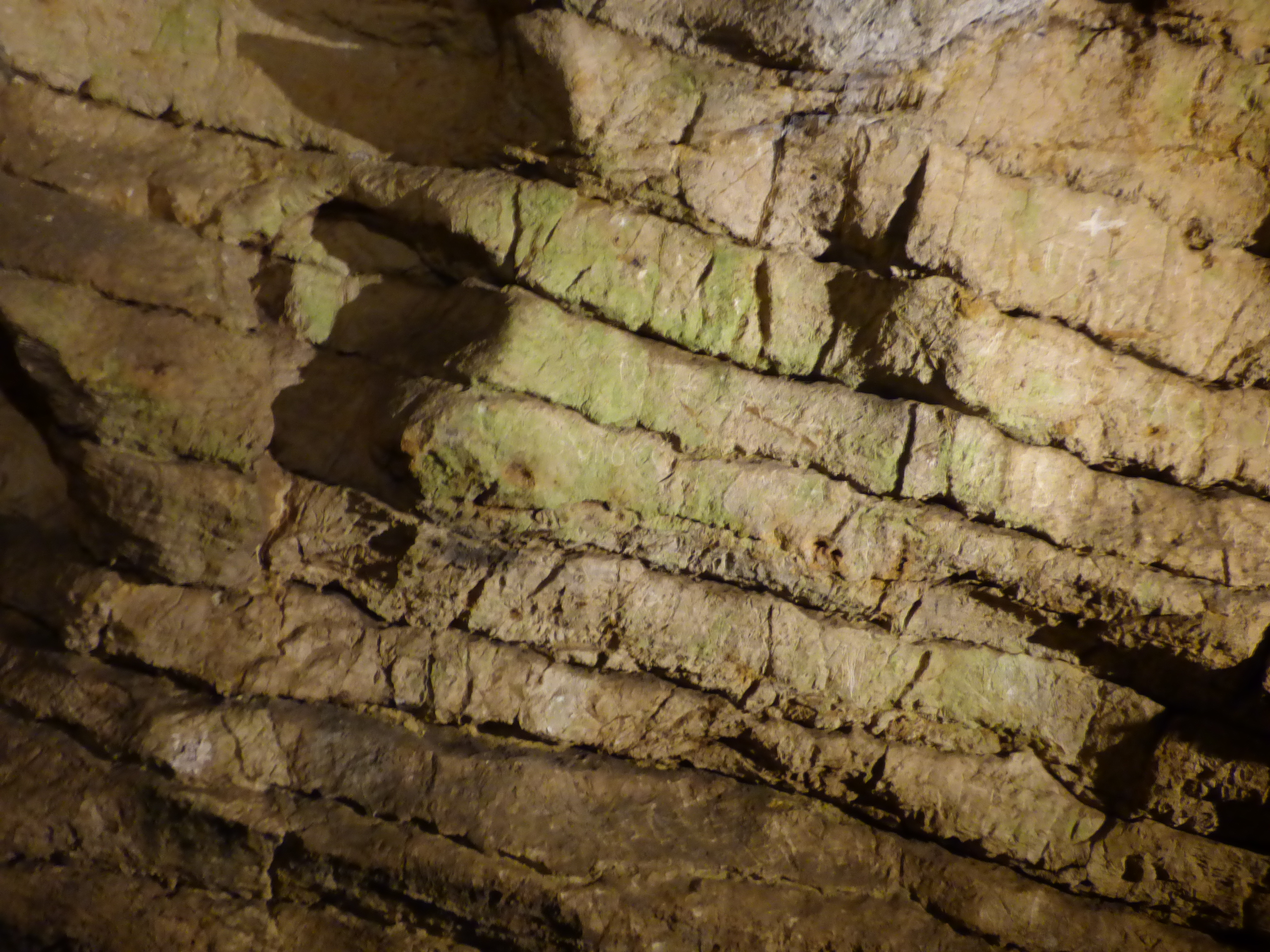 Lóczy-barlang 2016 11 algás falrész